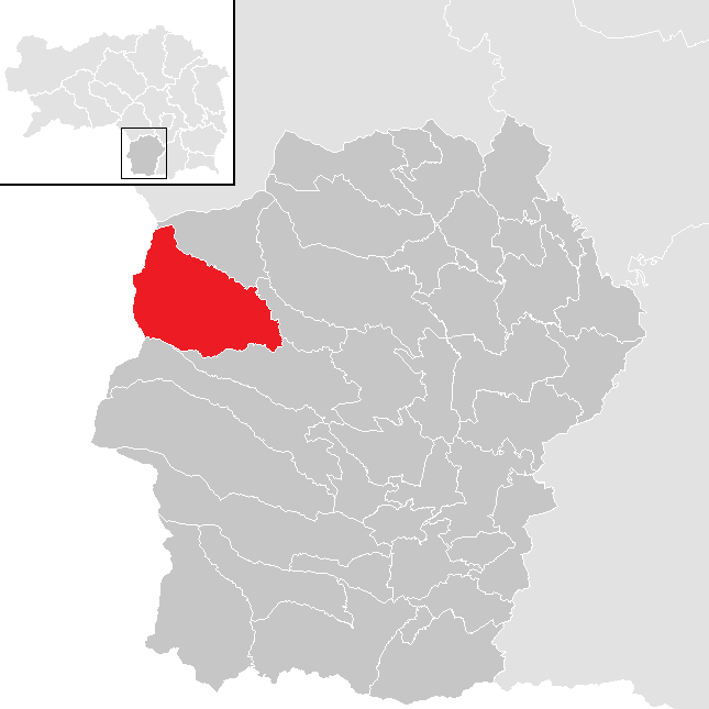 District Deutschlandsberg, Styria, Austria